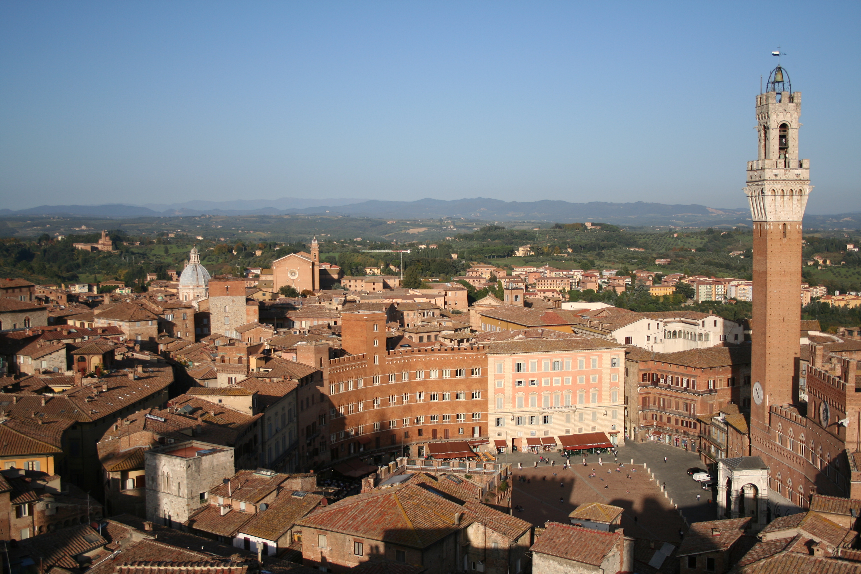 A photograph taken of the Piazza del Campo in Siena with tower Torre del Mangia and landscape with hills in background.